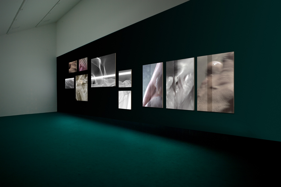 3-channel video installation, 5.1 sound by szely